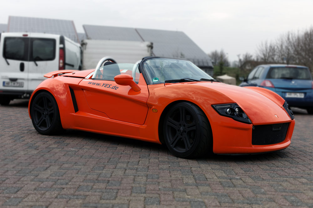 YES! Roadster 3.2 Turbo